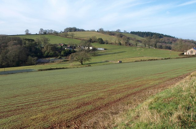 St Francis Convent, Posbury. A distant view from the same spot as 1736573, which can be seen on the right.